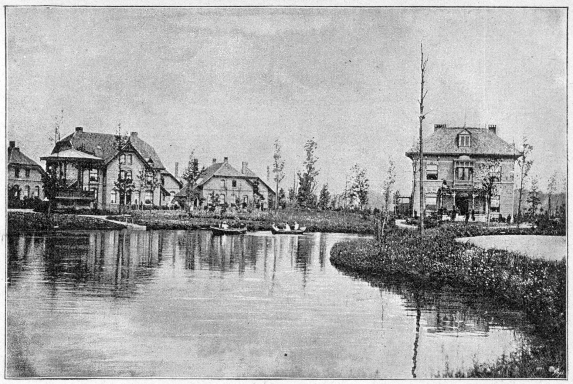 Lake and houses of workers